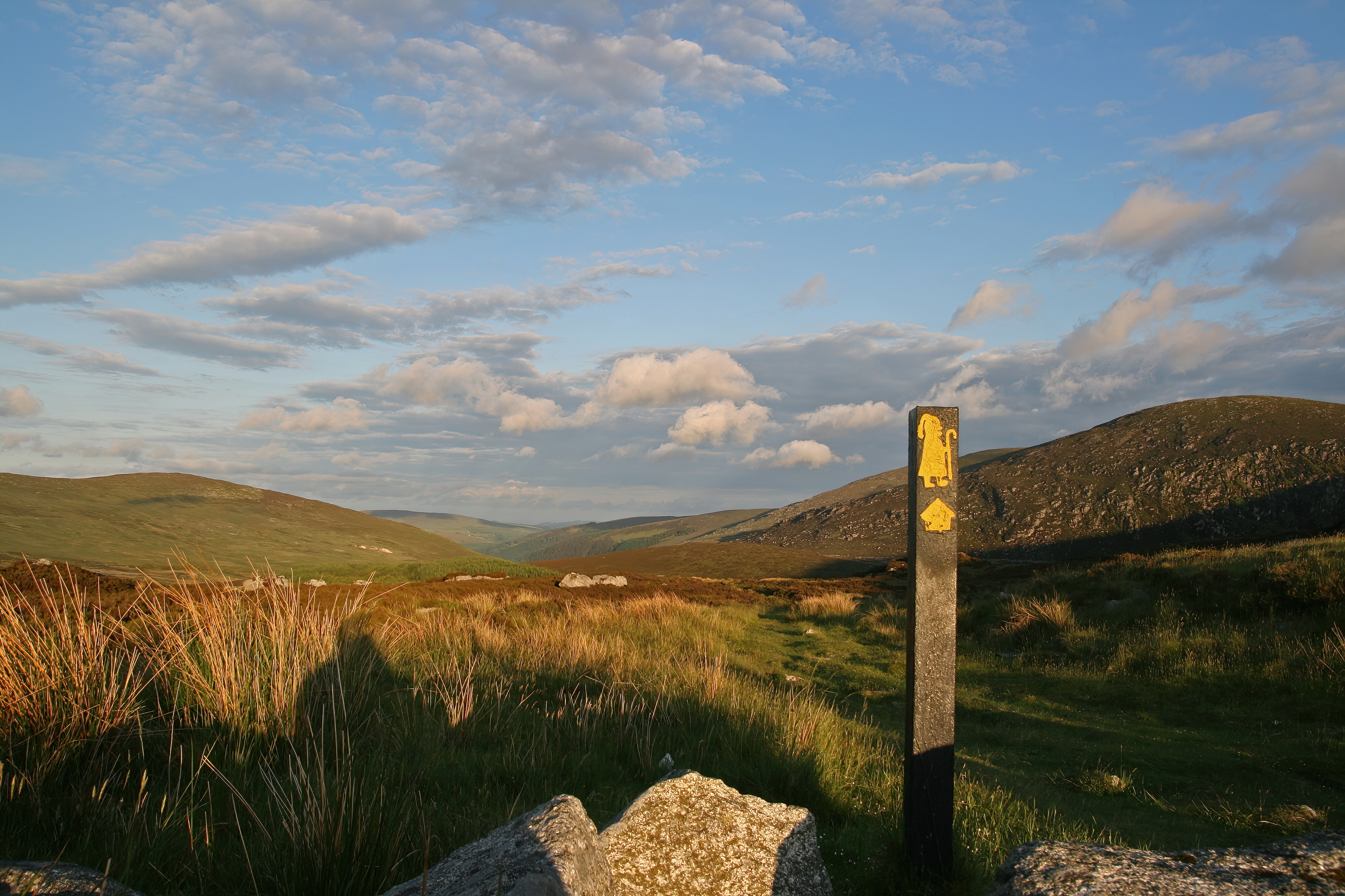 Wicklow Way at Wicklow Gap